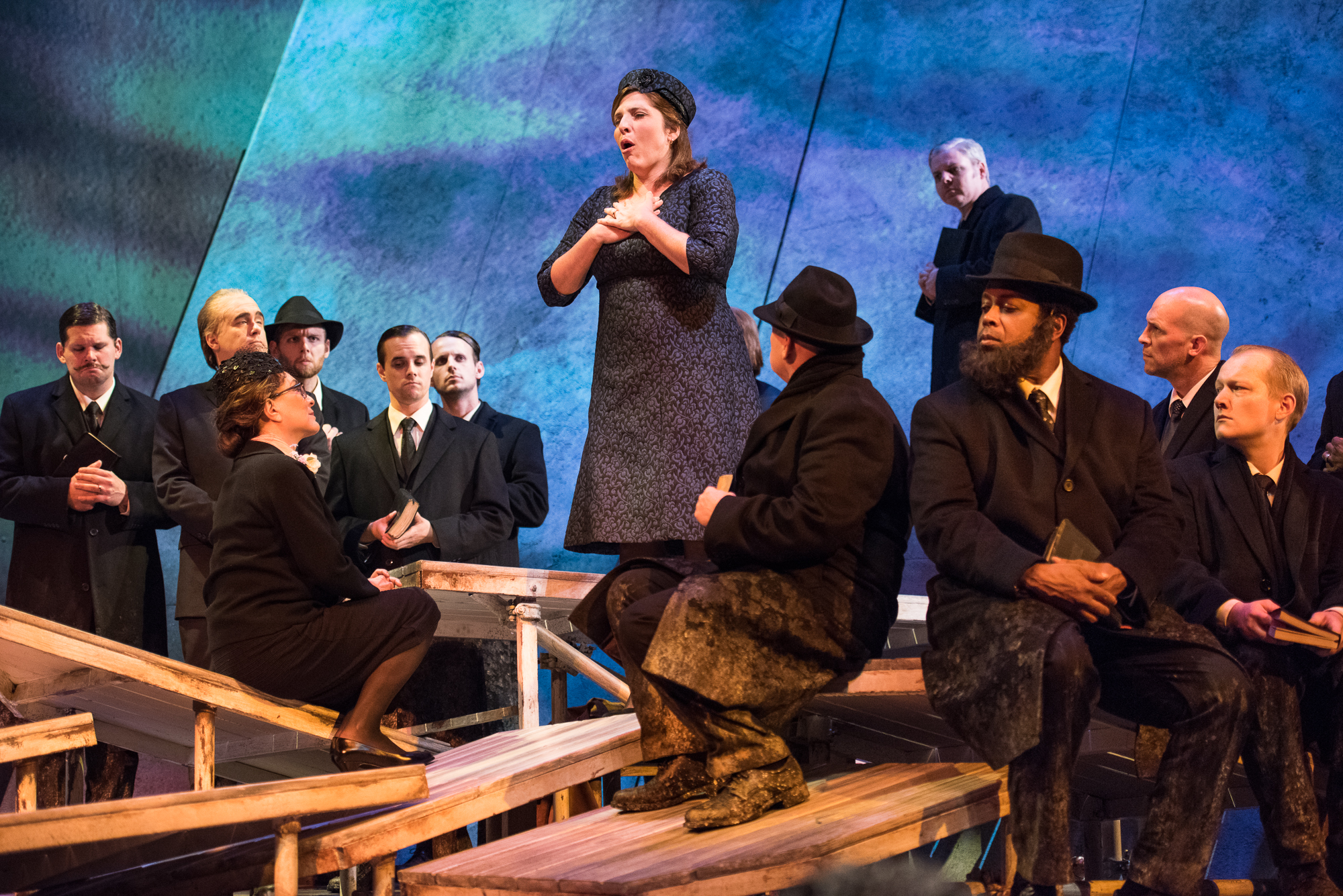 September 20, 2016 Kimmel Center Philadelphia, PA Photo by Steven Pisano.